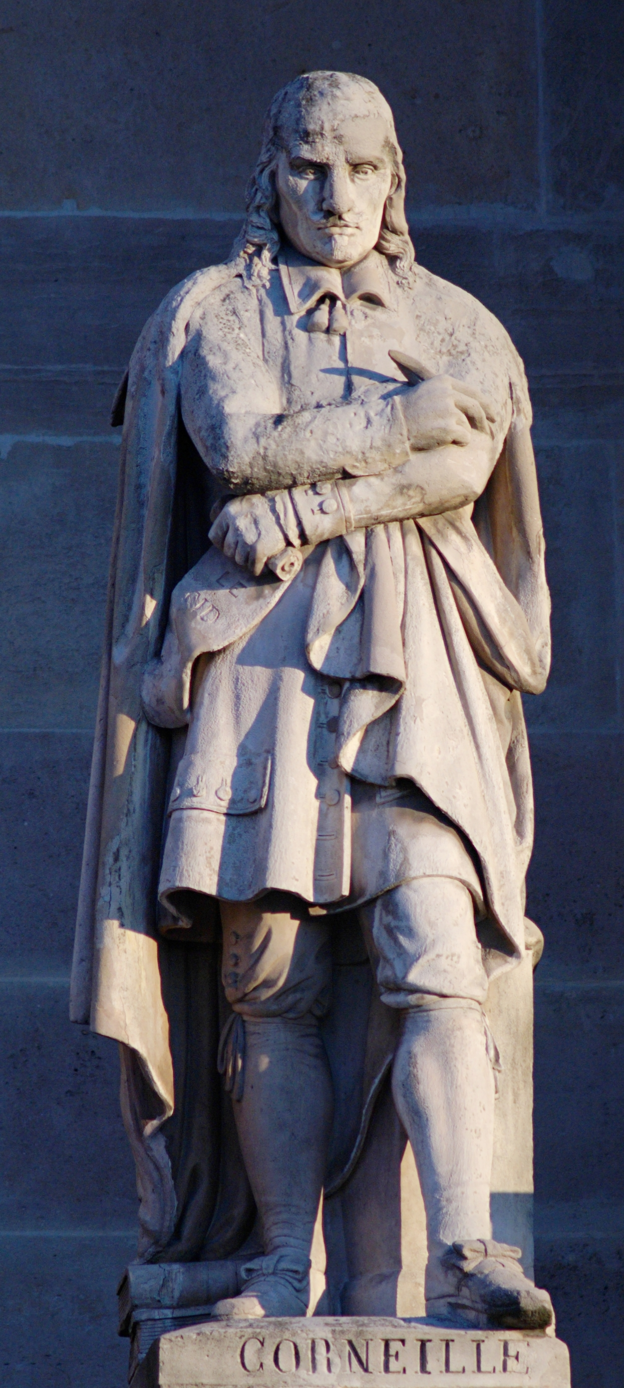 Corneille by Philippe Lemaire. Stone, before 1853. 8th statue from Pavillon Rohan to Pavillon Turgot, Cour Napoléon in the Louvre.